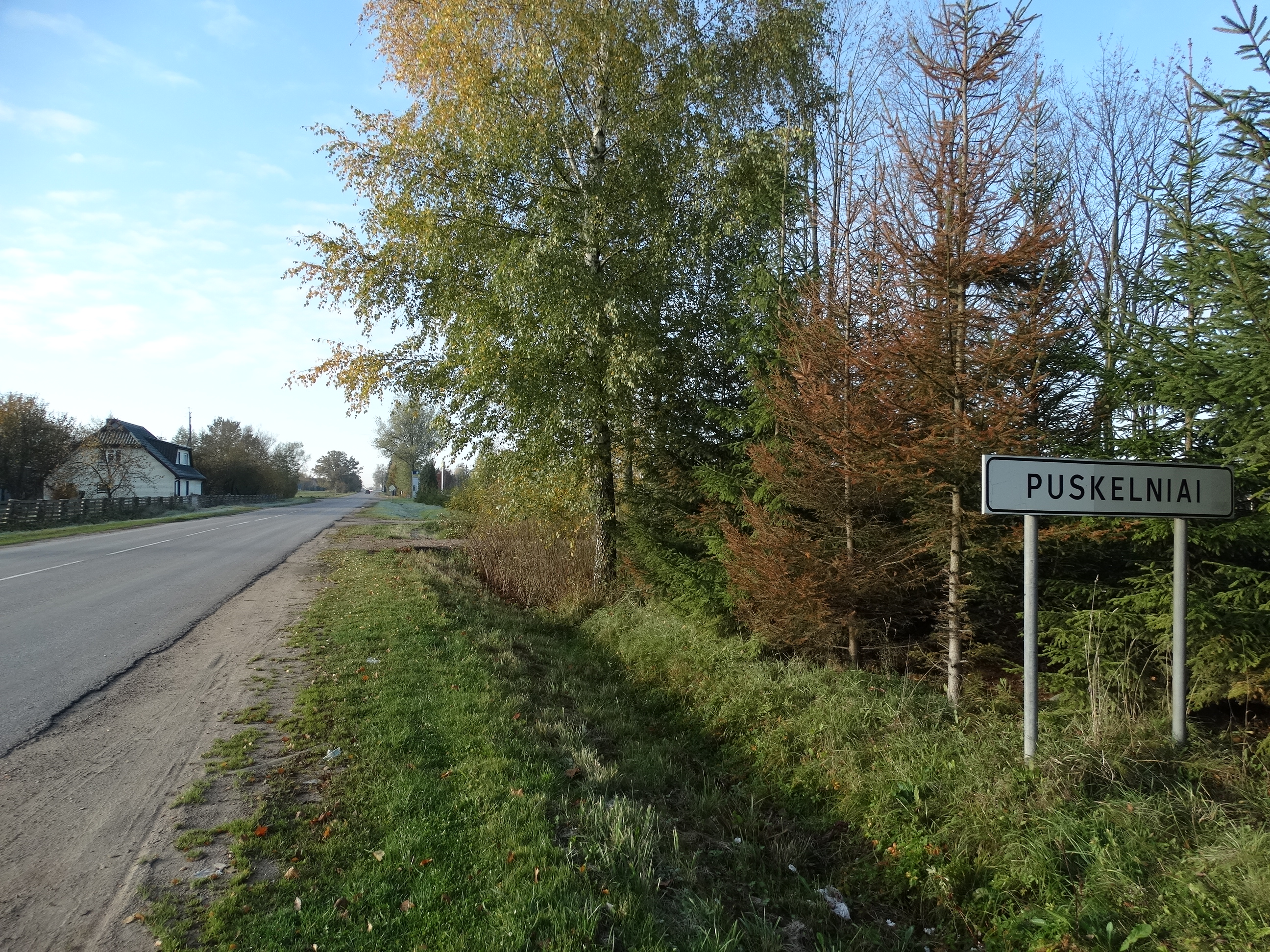 Puskelniai, Marijampolė district, Lithuania